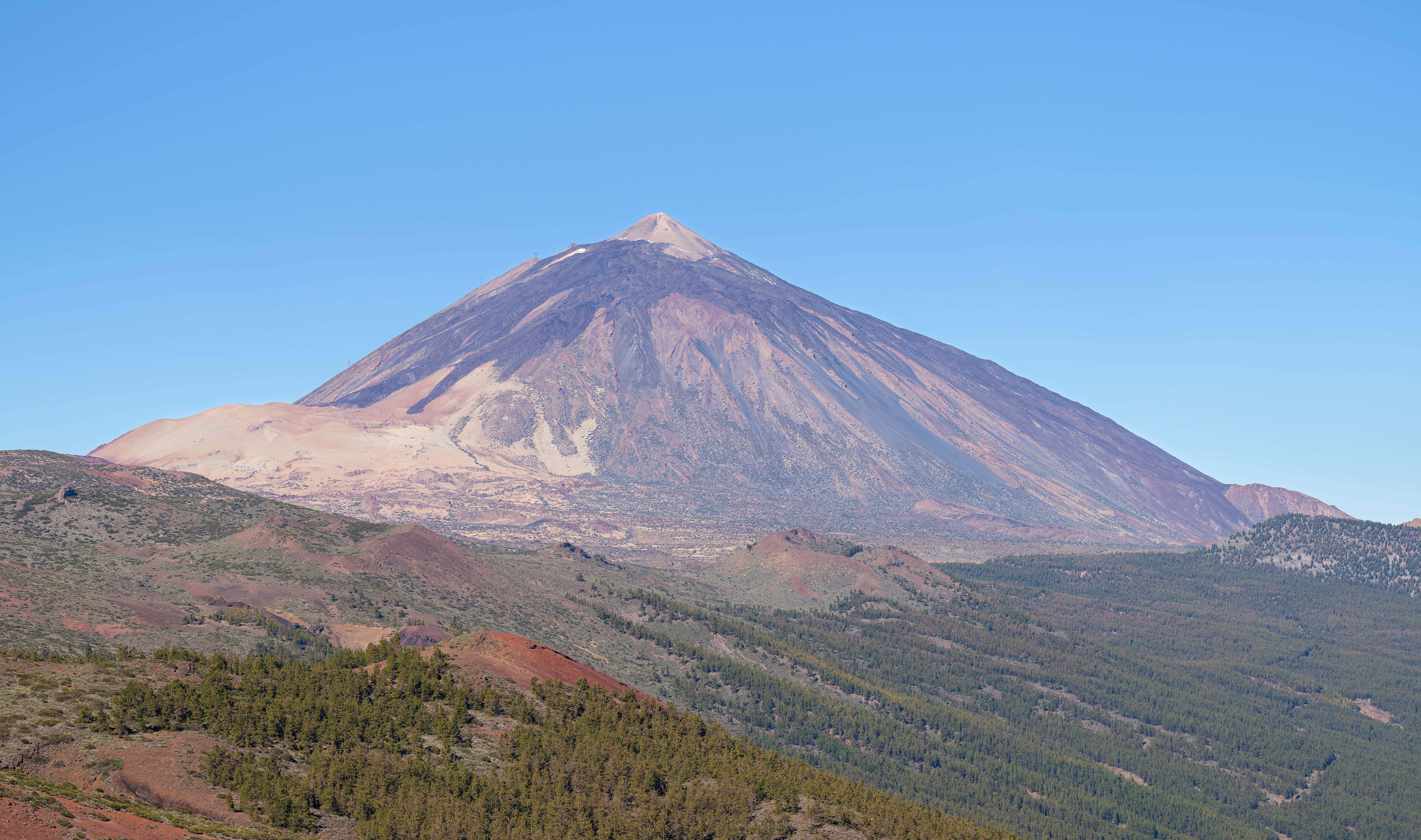 Teide on Tenerife from northeast